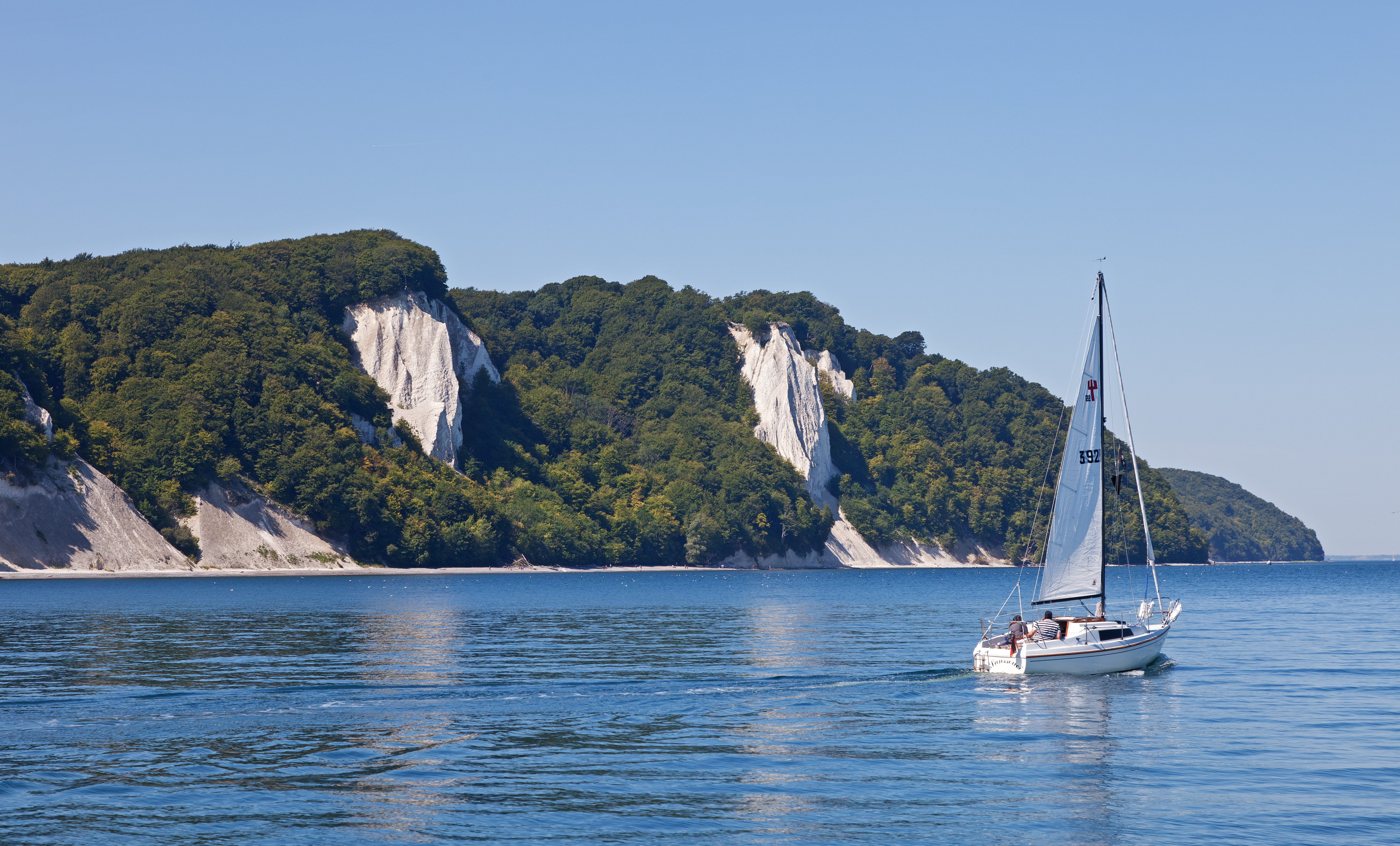 Königsstuhl (right) and Viktoria-Sicht (left) at Jasmund National Park on the German Baltic Sea island of Rügen